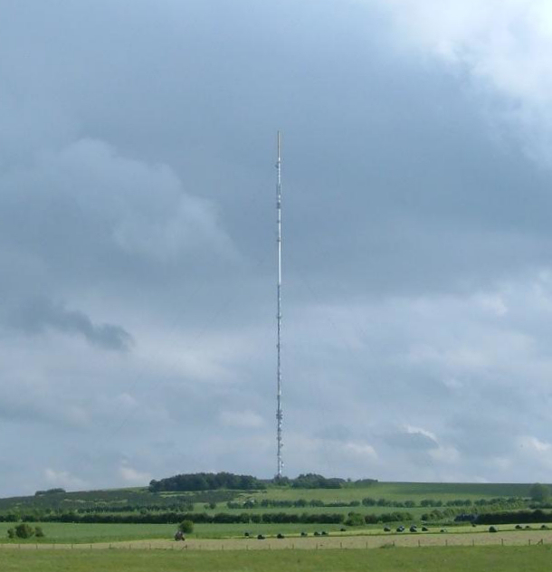 A view of the Mendip UHF television broadcasting mast looking roughly south from the road between Priddy and the A39 near Wells.